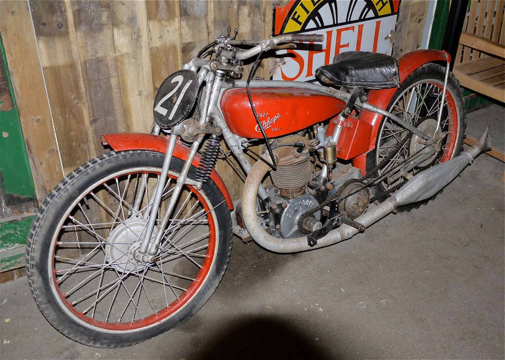 Should have removed lens hood when using flash. Panasonic G1 14-45 Lens